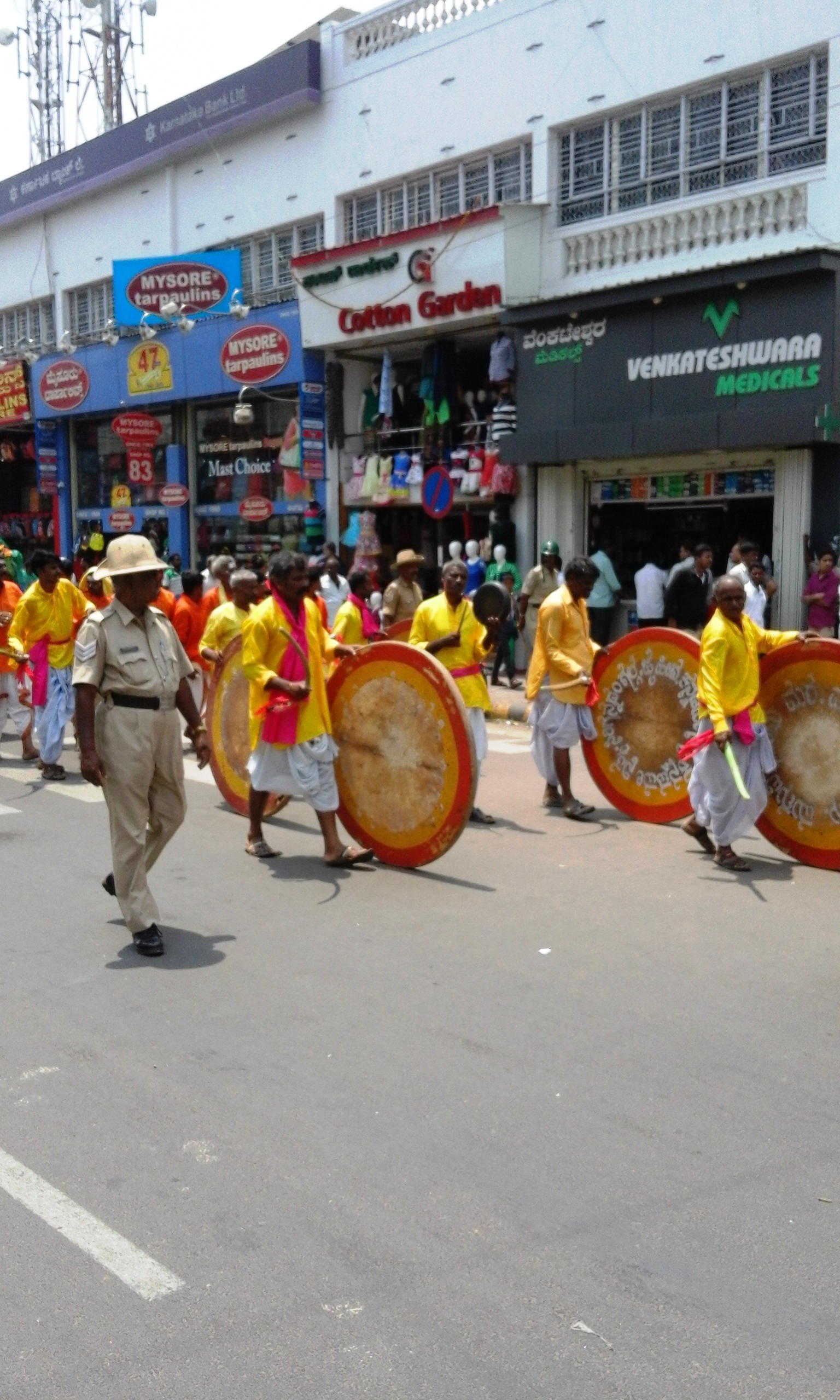 Mysore city, Karnataka province, India.